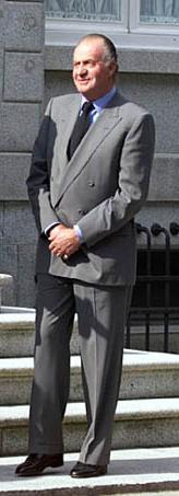 Detail of photo of President George W. Bush and Laura Bushis meeting with King Juan Carlos I and Queen Sofía of Spain at the King's palace on Tuesday June 12, 2001 in Madrid, Spain.